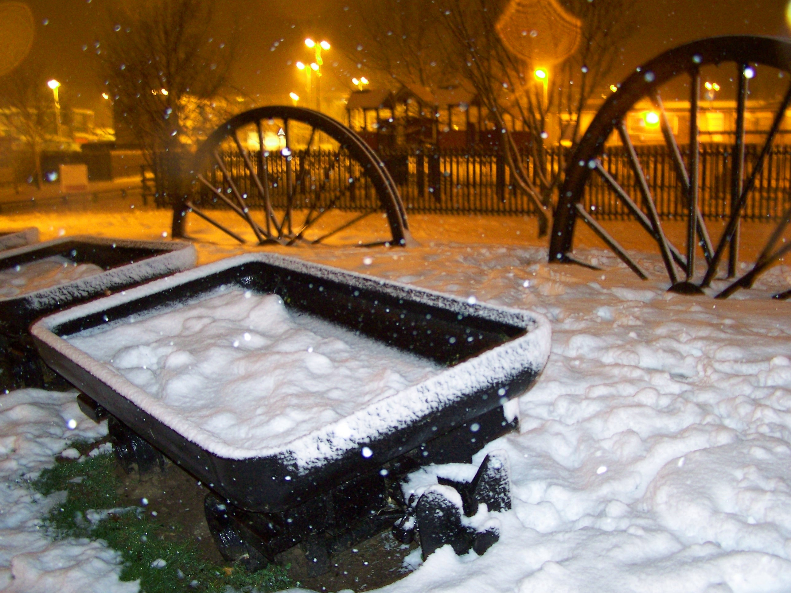 Cotgrave Mining Tableux near precincts